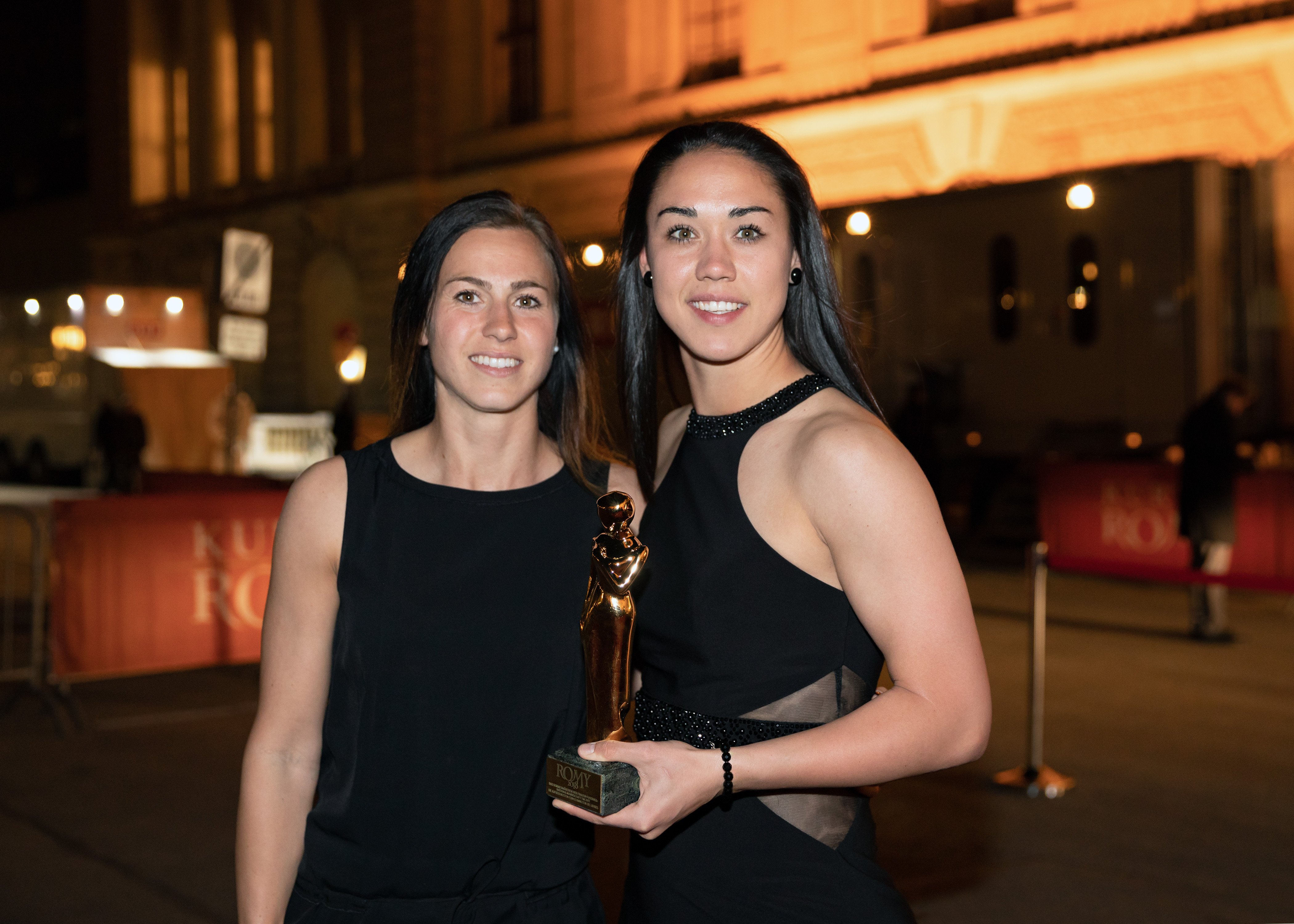 Manuela Zinsberger (r.) and Viktoria Schnaderbeck (Austria women's national football team) on the red carpet of the Romy TV awards 2018 at Hofburg Palace in Vienna, Austria.